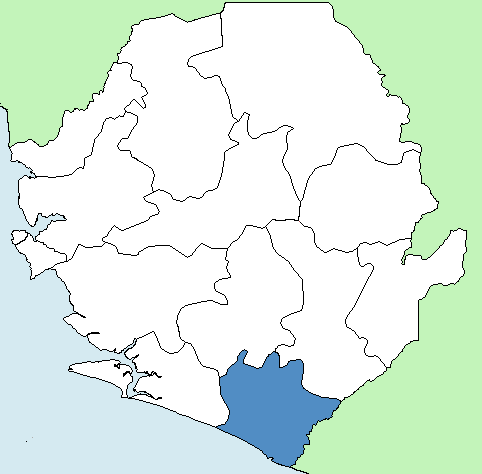 Map showing location of Pujehun District in Sierra Leone